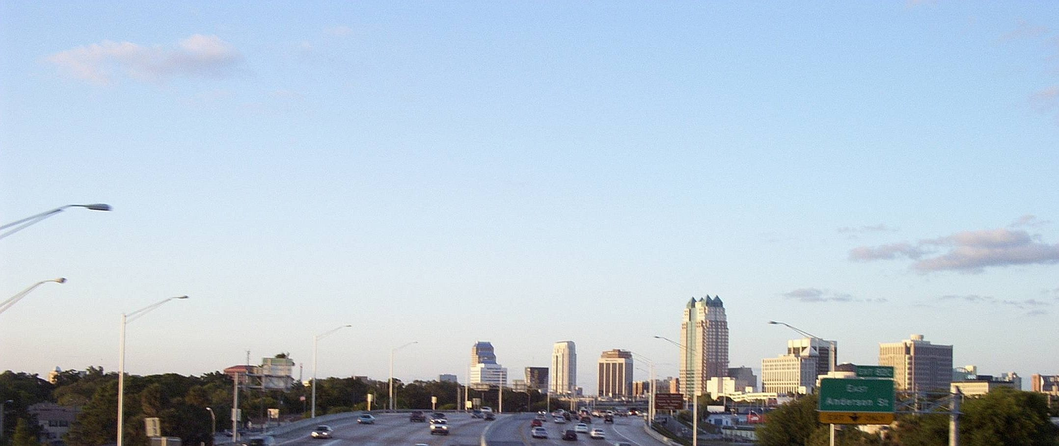 Orlando skyline: taken by User:Cwolfsheep in 11-2004